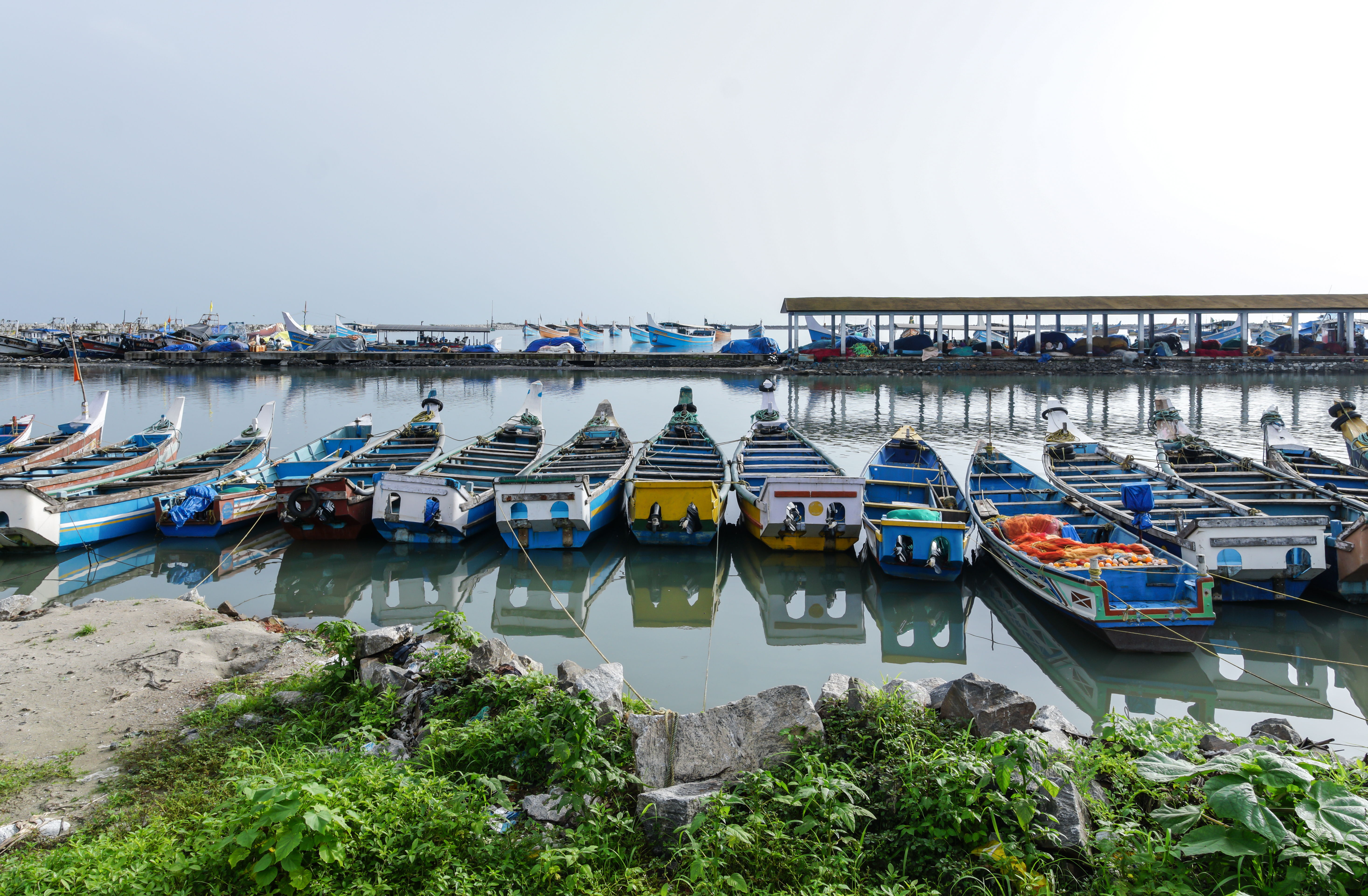 Fishing boats at Koyilandy Harbour